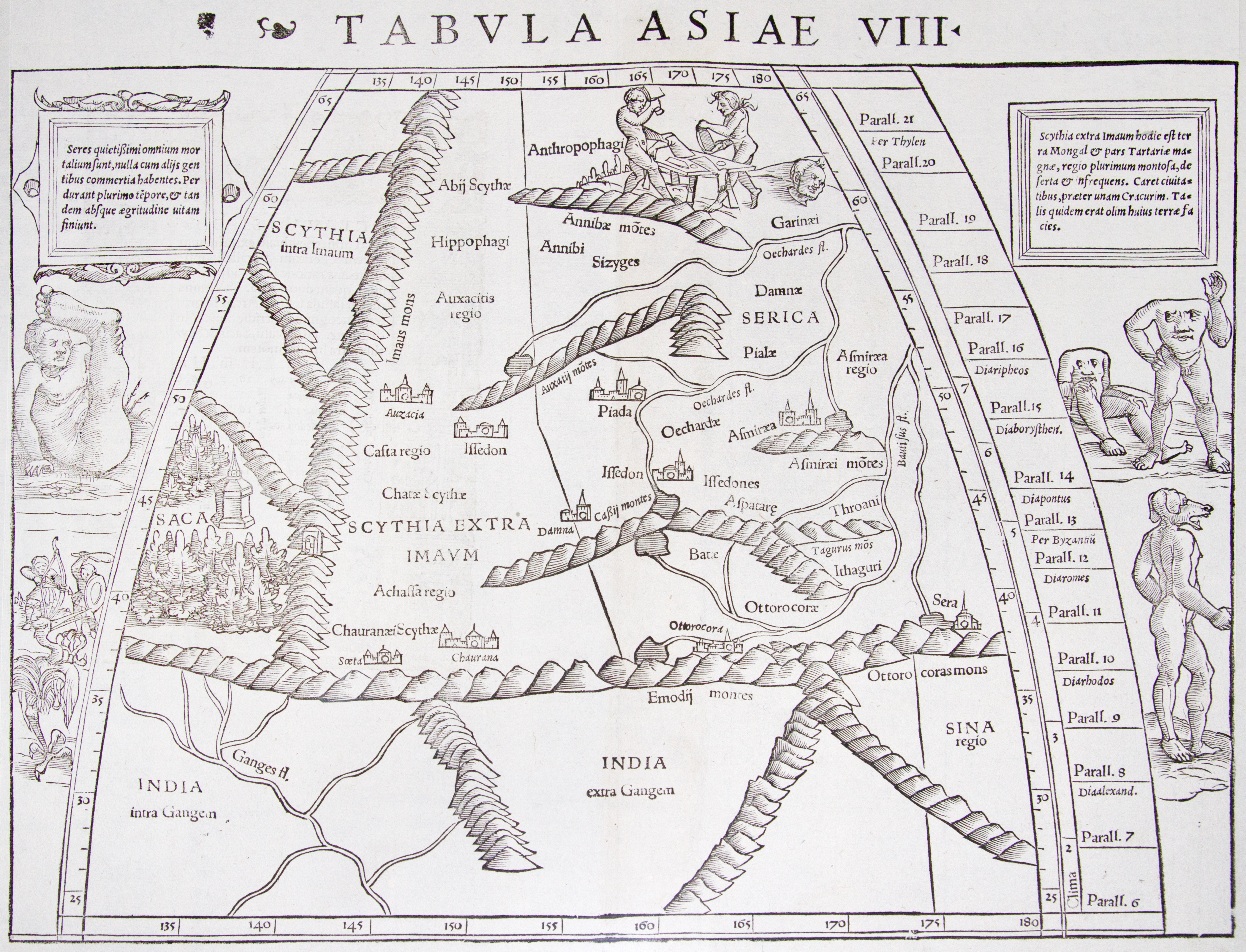 Woodcut map of central Asia, Ptolemy's 8th Regional Map of Asia (Tabula Asiae VIII). Scythia extra Imaum and Serica, land of the Seres.